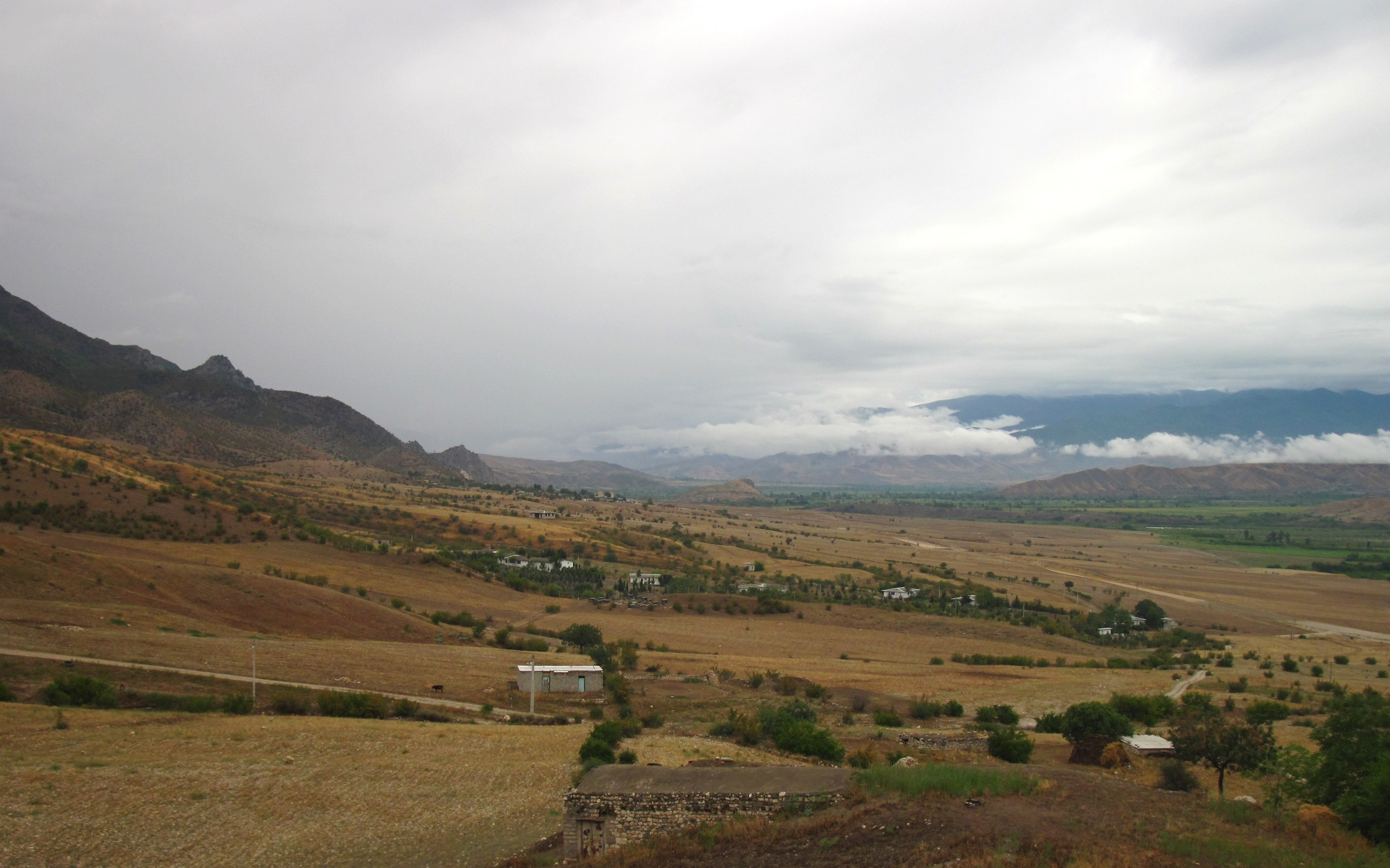 This is a photo of Tatar-e Sofla, East Azerbaijan village for the village's wiki page.